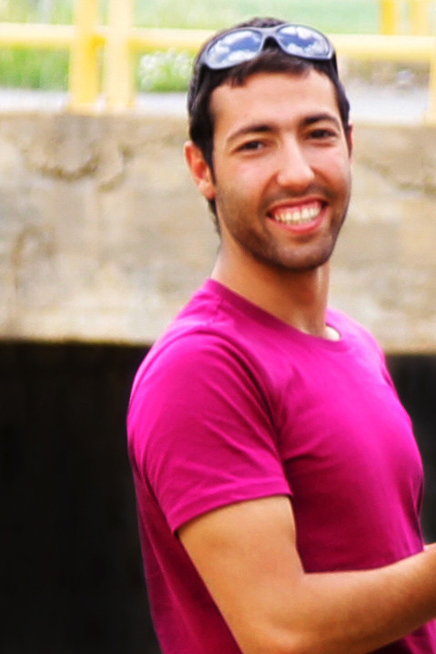 This photo contains Aidin's face and upper body.